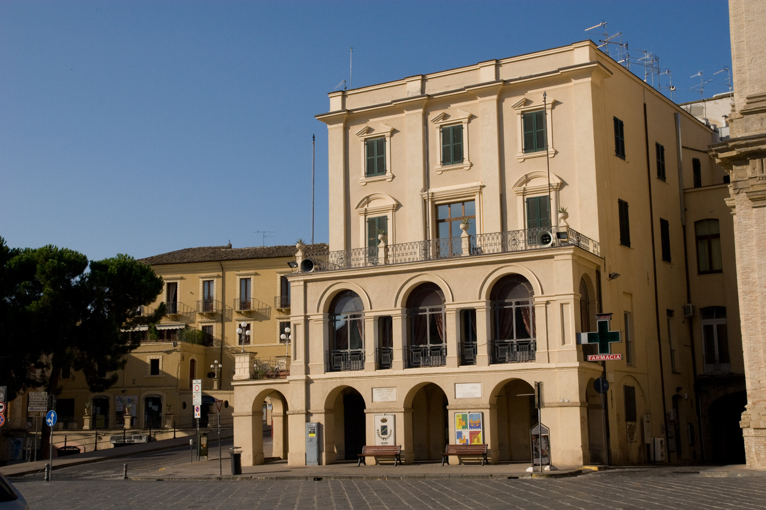 Lanciano